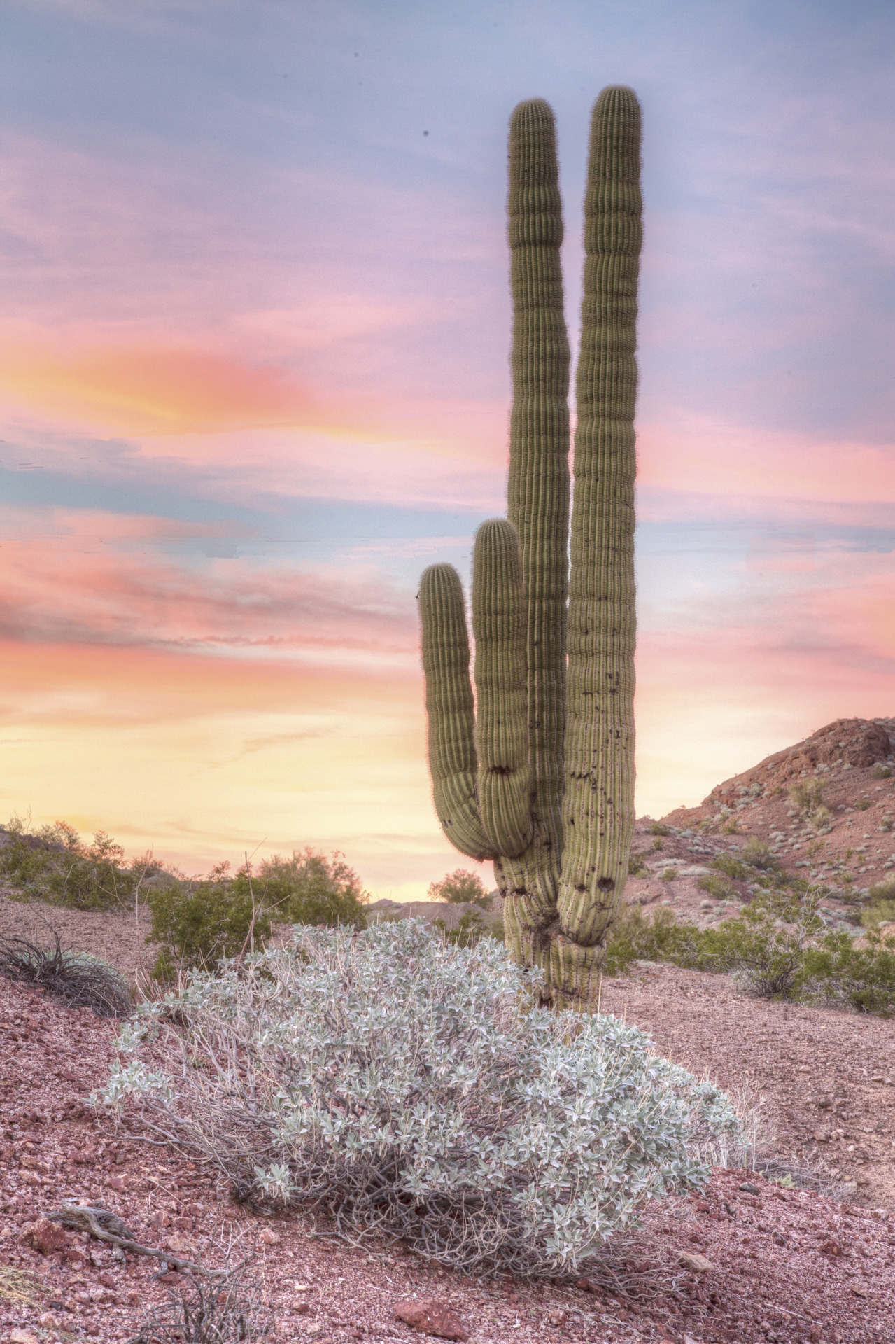 The BLM provides oversight for 222 wilderness areas with 8.7 million acres in 10 Western States. Wilderness areas are special places where the earth and its community of life are essentially undisturbed. They retain a primeval character, without permanent improvements and generally appear to have been affected primarily by the forces of nature. Enjoy photos by Bob Wick on BLM Wilderness Areas throughout the state.